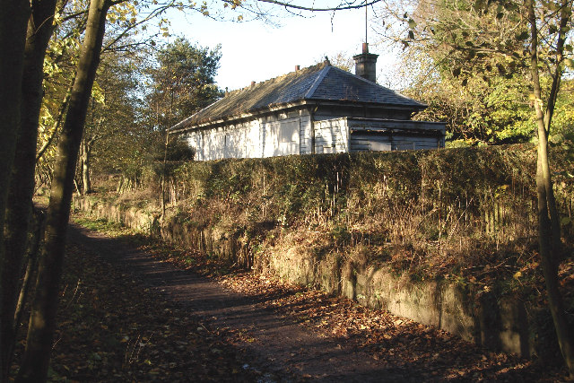 Pitfodels Station. Station on the old Deeside Railway Line (Now the ODL walk).